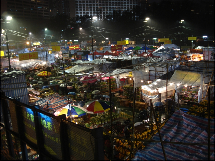 Victoria Park, Causeway Bay: Junction of Hing Fat Street and Causeway Road , Causeway Bay